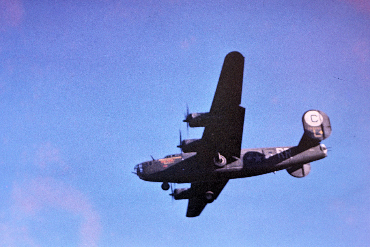 A B-24 Liberator of the 389th Bomb Group returns to base. Image via NASM. Written on slide casing: '389 BG, 566 BS, RR L+ Landing